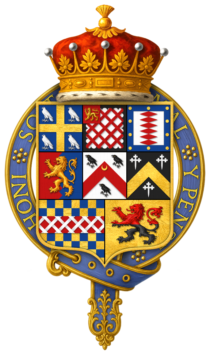 Coat of arms of Sir Henry Wriothesley, 3rd Earl of Southampton, KG